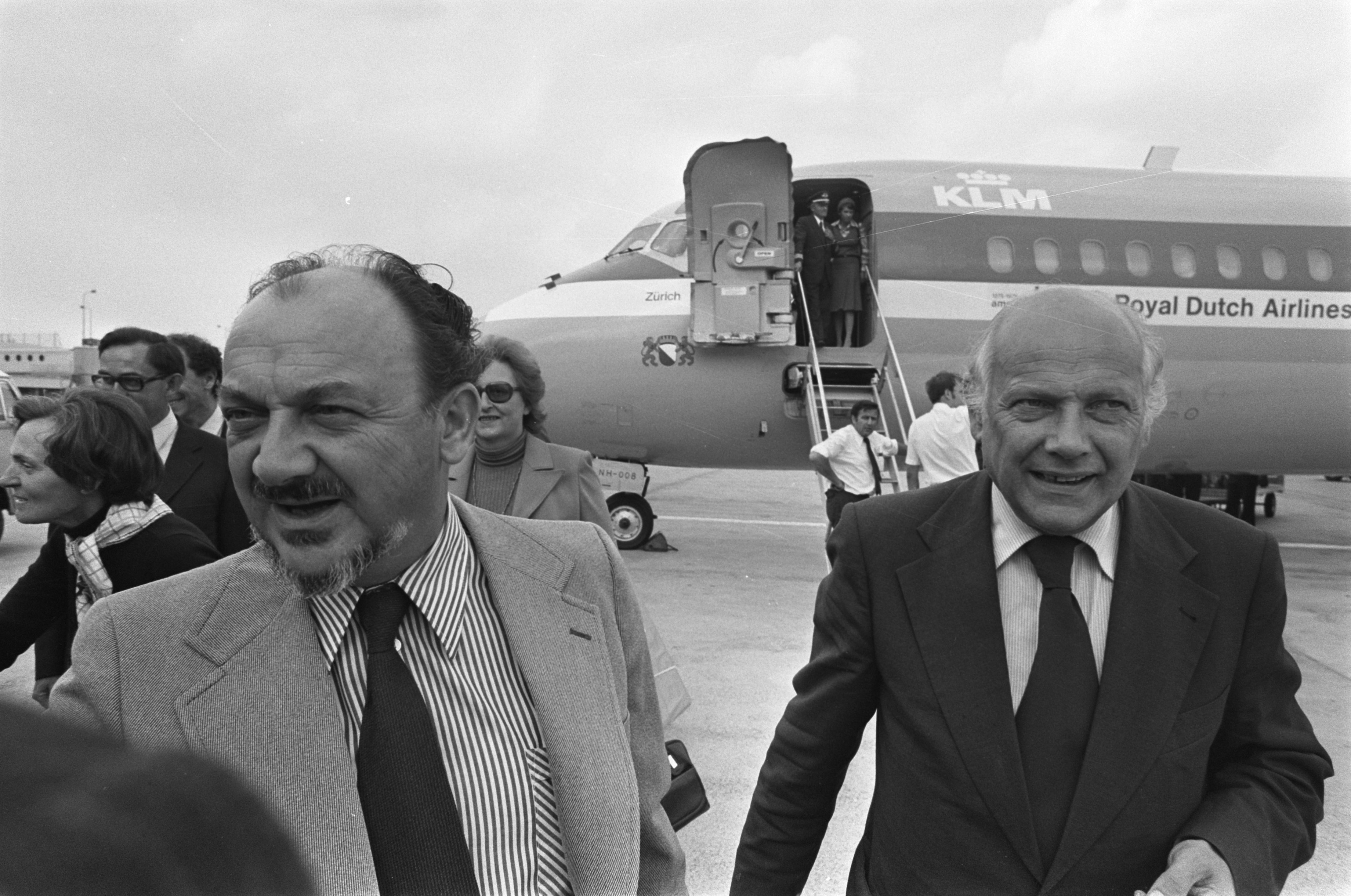 Minister-president Anker Jorgensen uit Denemarken op Schiphol begroet door Joop den Uyl